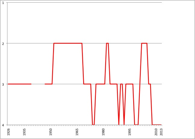 A graph showing which tier of English Football Rotherham United have played in from 1925-2013.